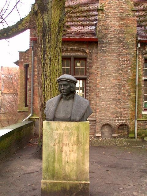 Sculpture by Joan Lluís Vives, near the bridge of St. Boniface, in Bruges (Belgium)